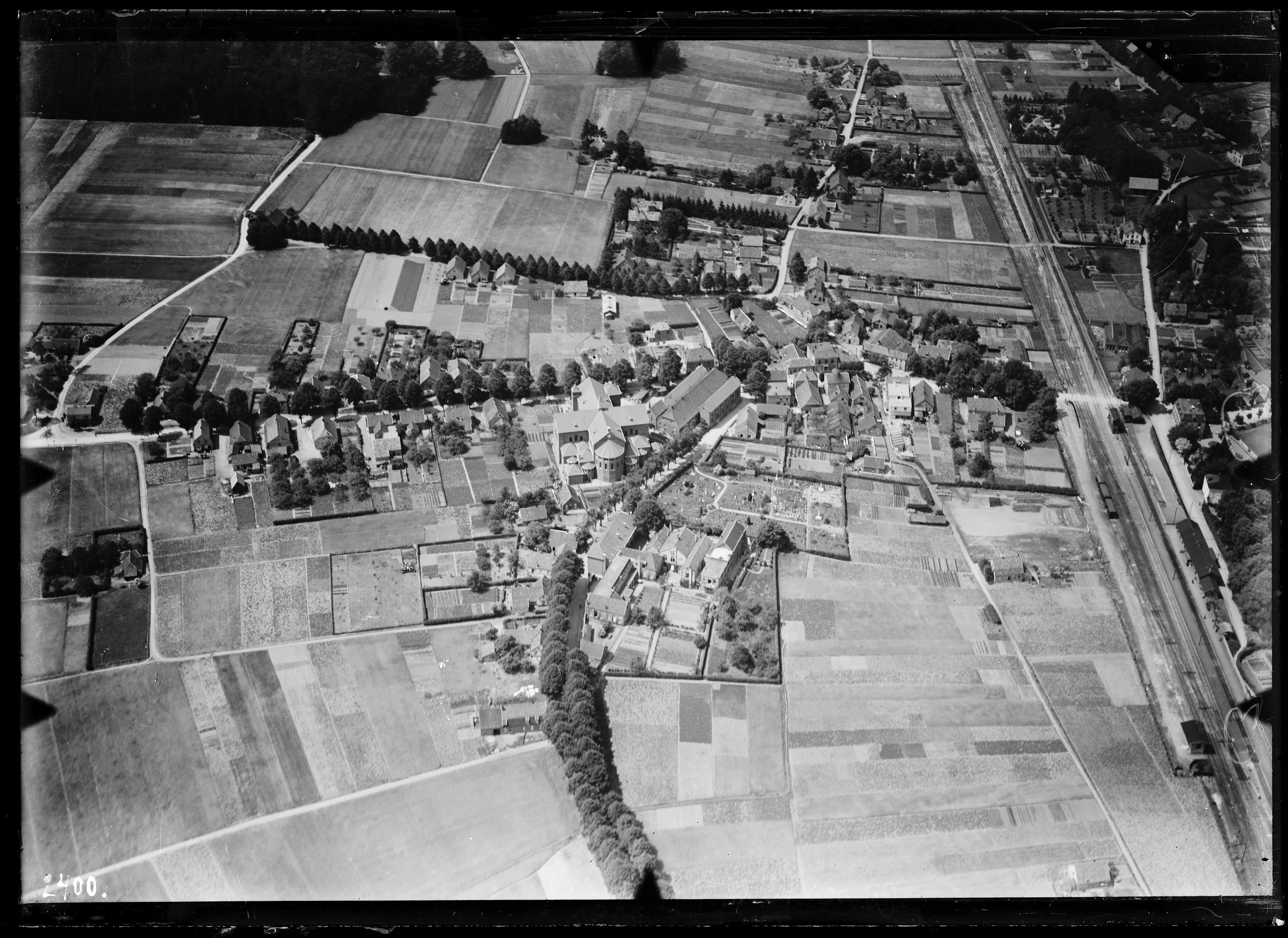 Aerial photograph of Groesbeek, The Netherlands